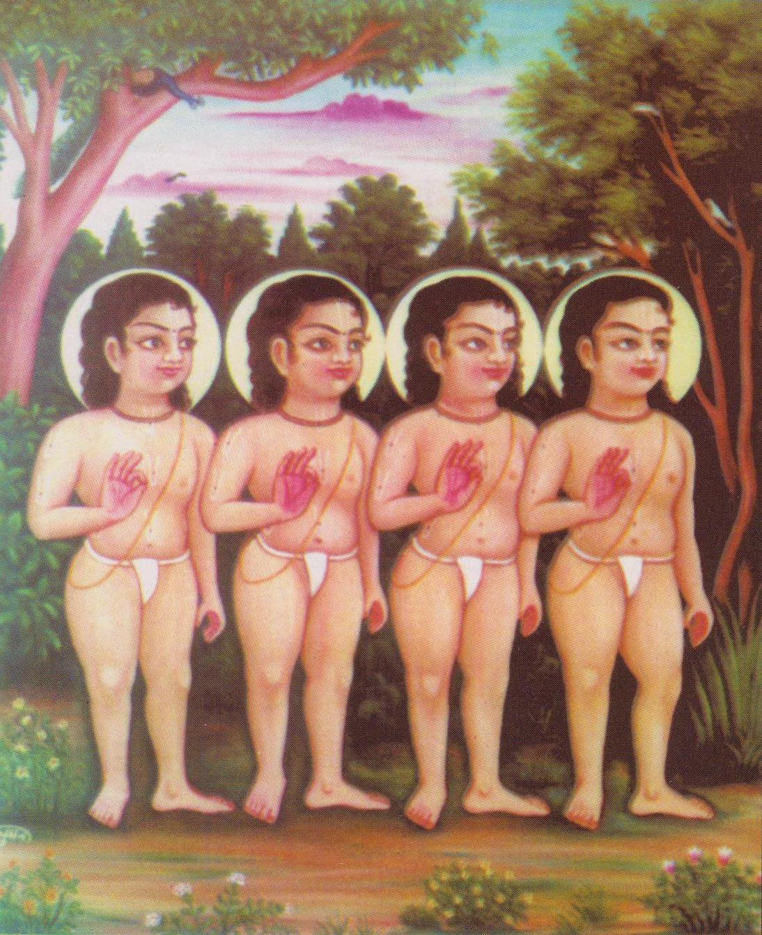 Four Kumaras: Source is from Editor in Chief, Sri Vasudeva Sarana Upadhyaya, of Sri Sarvesvara Press, Sri Nimbarkacarya Pitha, Salemabad, Rajasthan, India. He has given me all rights to the photos used in the section and should be licensed under the GFDL.